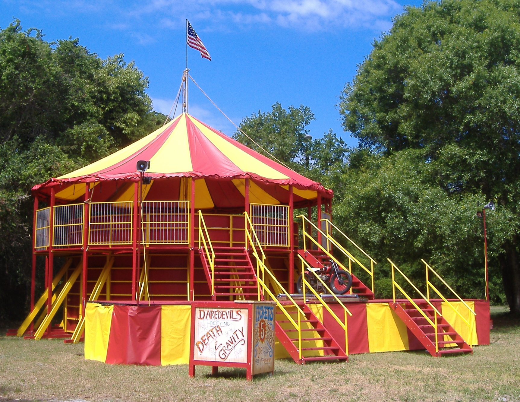 Classic American Carnival Wall of Death Thrill Show